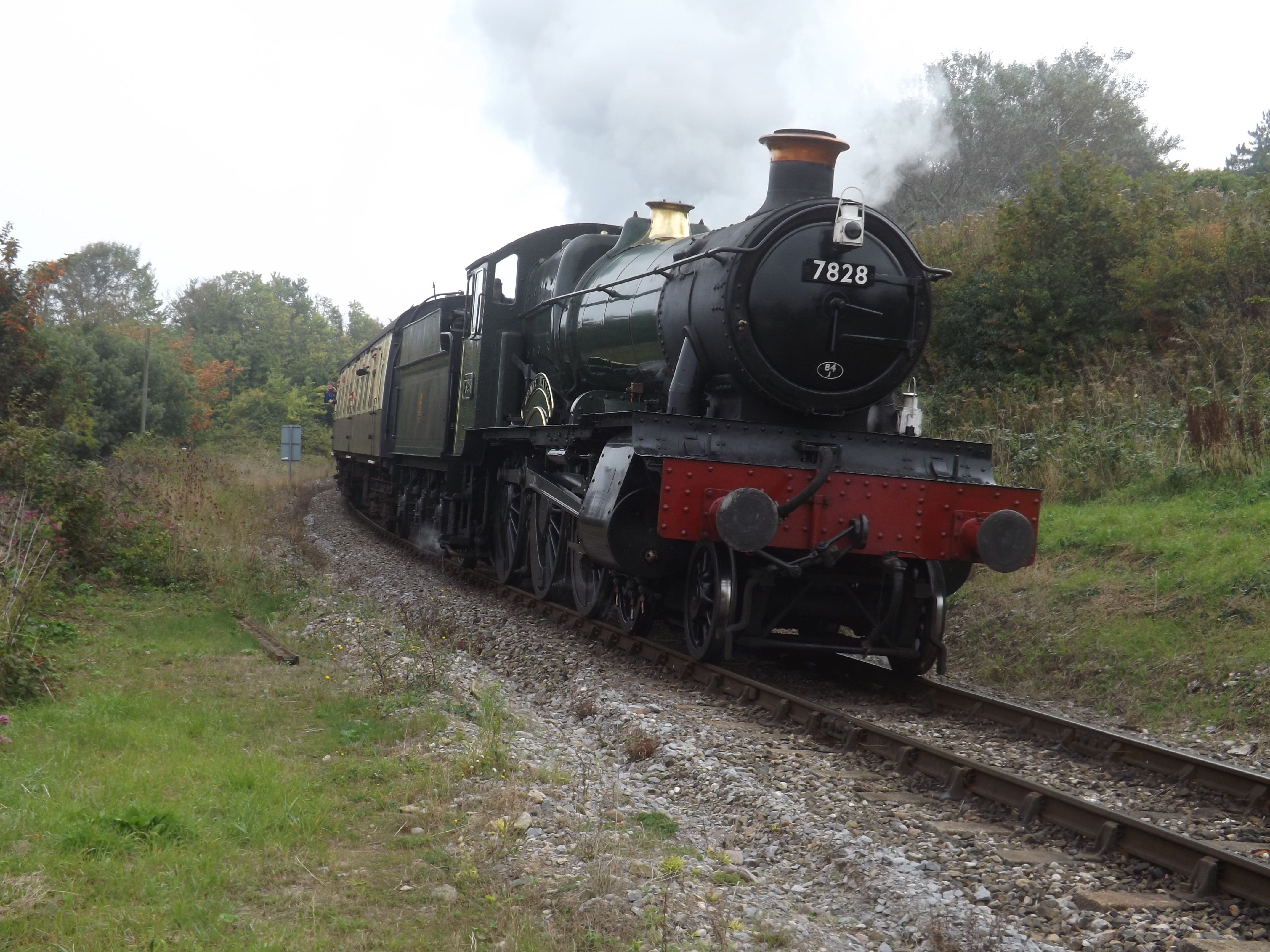 Autumn Term 2015 Steam Gala (1st to 4th October 2015)